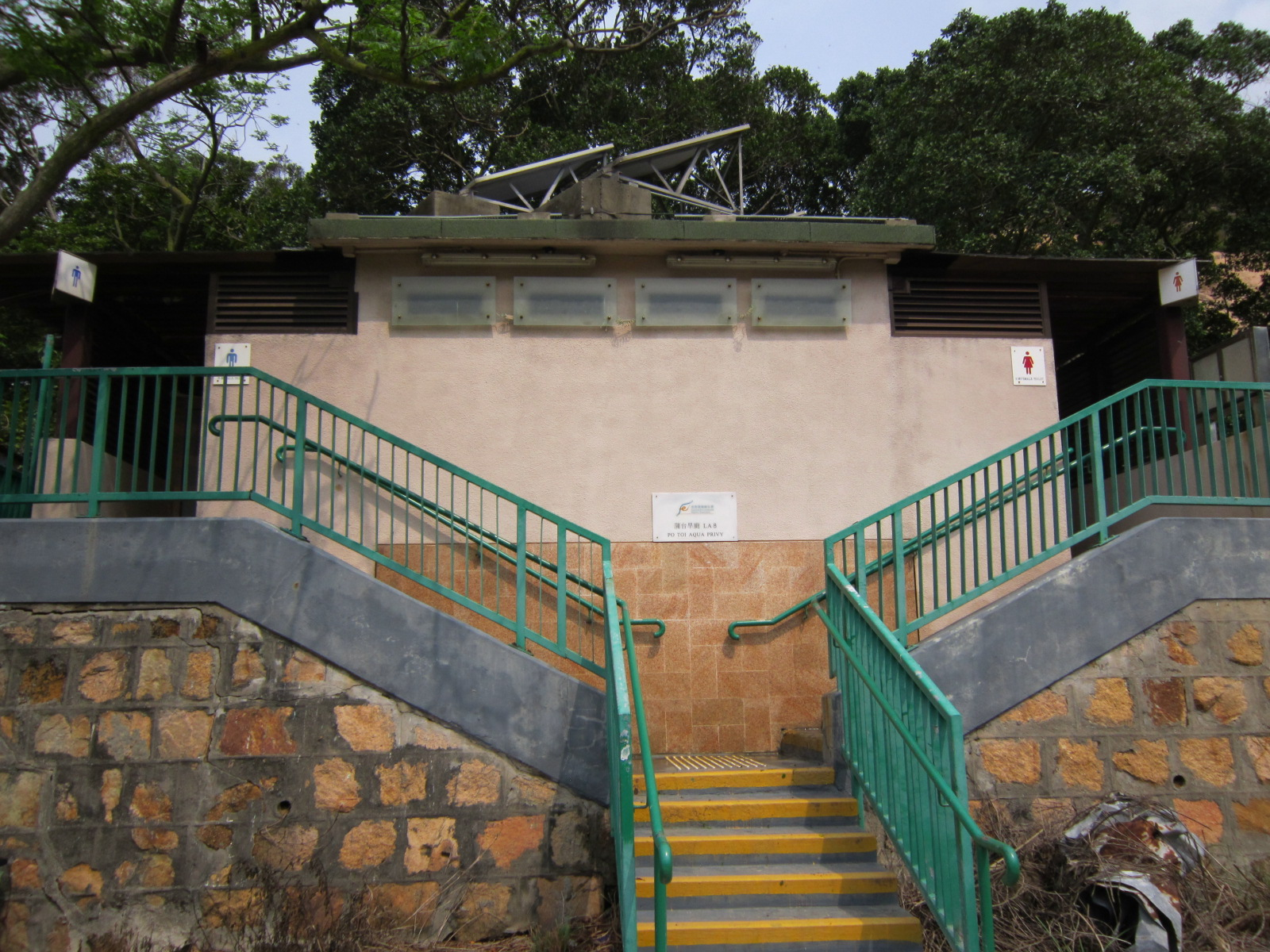 An aqua privy at Po Toi Island中文（香港）: 位於蒲台島的旱廁